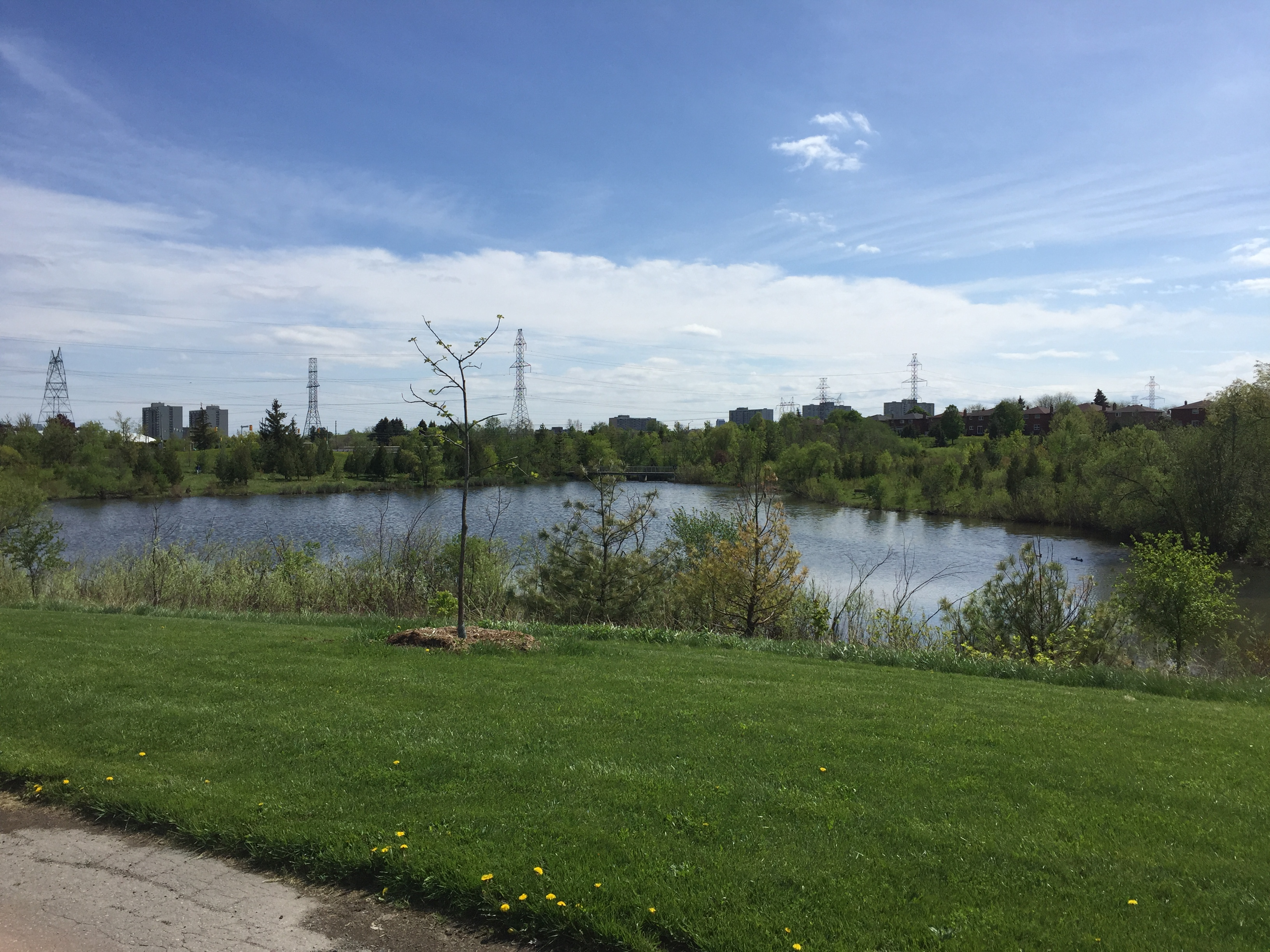 L'Amoreaux Park in Toronto, Canada.